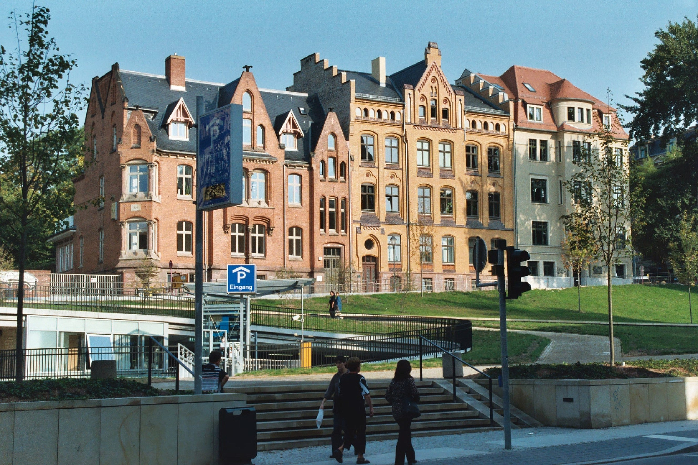 Halle (Saale), a row of houses on the Wilhelm-Külz-Straße